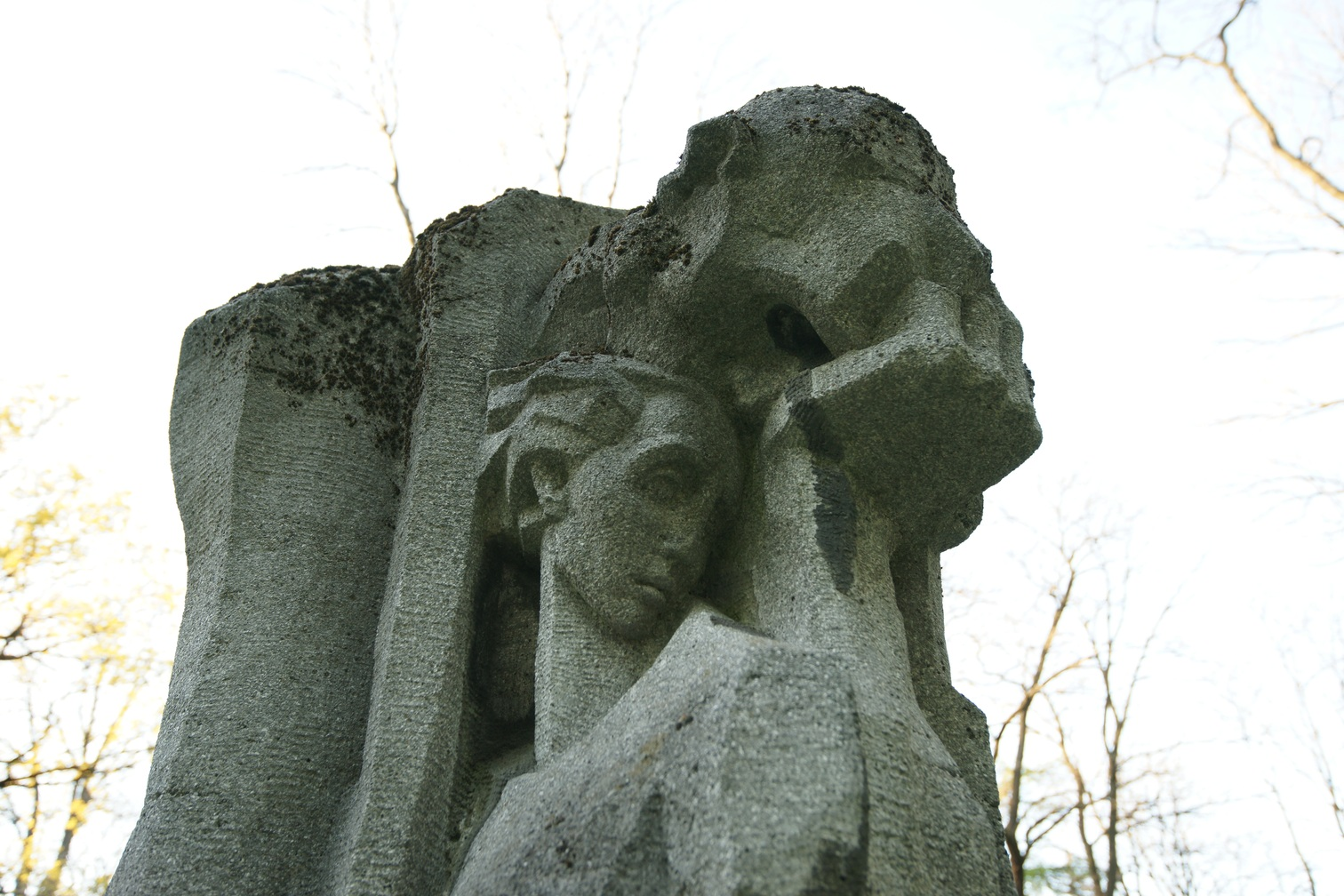 Monument sculptored by Józef Gosławski on the tombstone of Janina Gałowa, Rakowicki Cemetery in Cracow (1932). Condition before the renovation. Sector "Q".